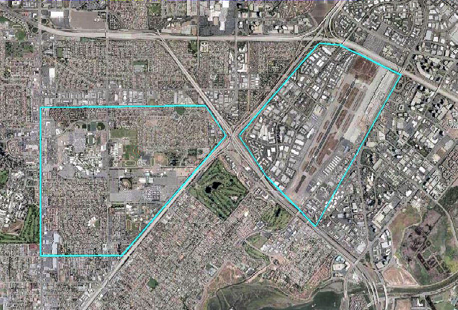 USGS digital orthophoto of Santa Ana Army Air Base in California